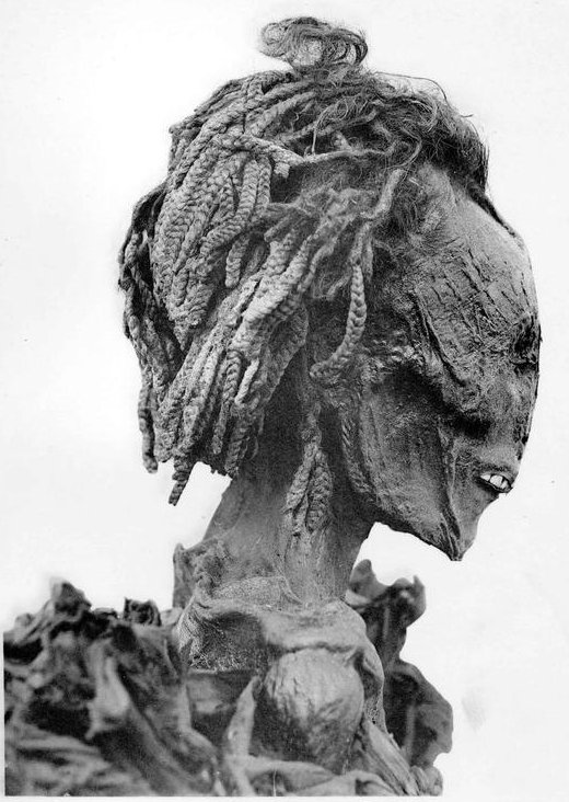 Mummy of Queen Ahmose Inhapy (Head)